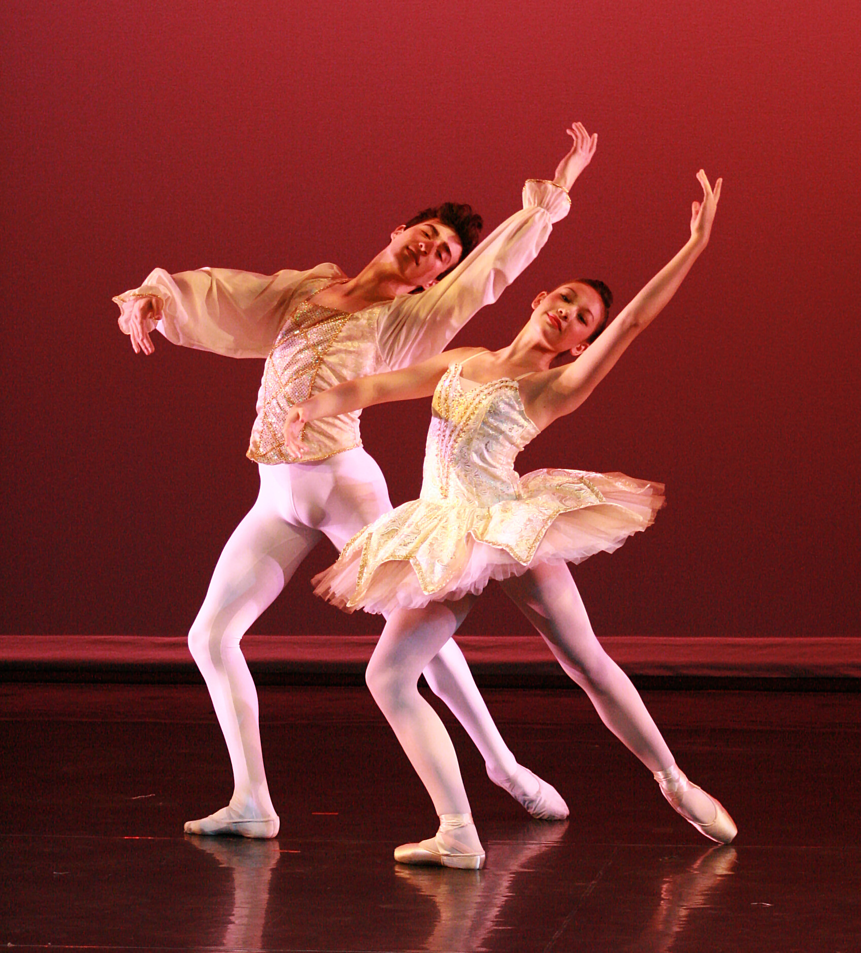 Paquita pas de deux, performed by Daria L and Ross at a NW Fusion Dance Company concert at the World Trade Center Theater in Portland, Oregon.